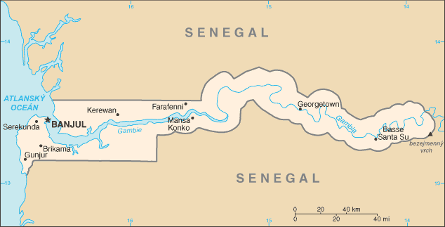 Map of Gambia with Czech description.